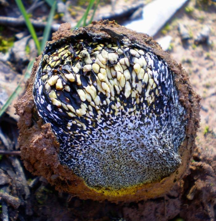 Fruit body of the hypogeous fungus Pisolithus arrhizus (Scop.) Rauschert. Specimen photographed in Central Goldfields, Victoria, Australia.